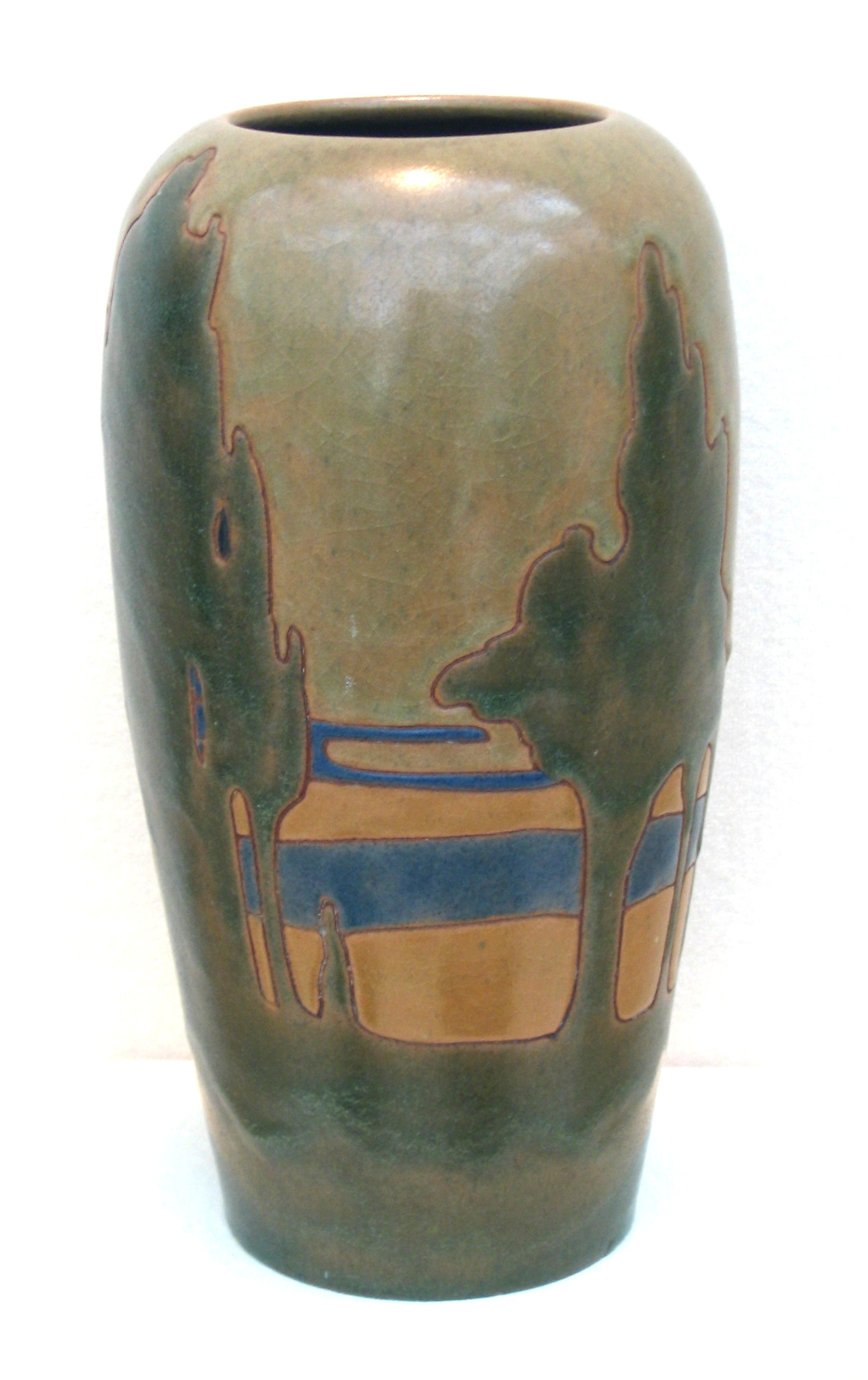 A vase created by Frederick Hurten Rhead.